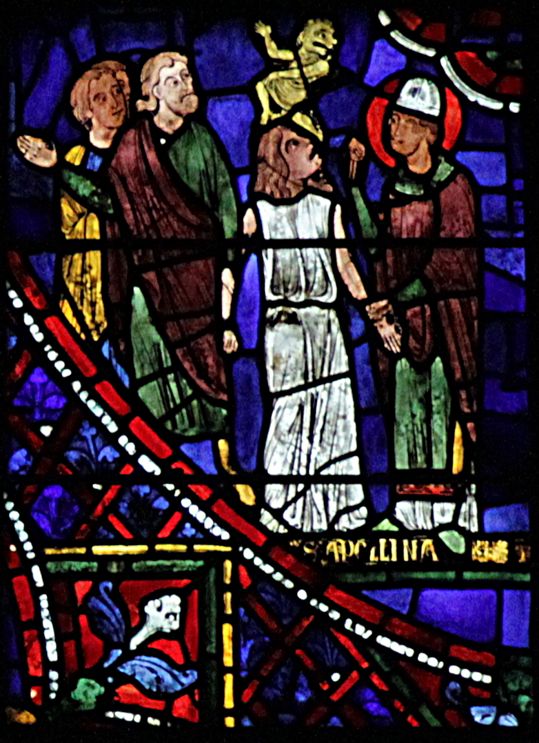 Fragment of File:Chartres 36 -Corrected.jpg - Life of St Apollinaris